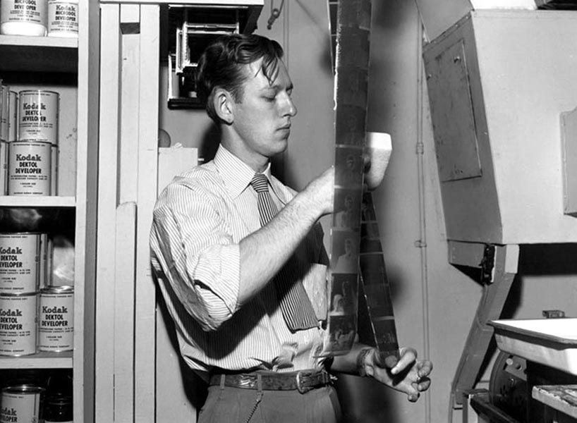 Also found at . The description at states: "DOE PHOTOGRAPH. Ed Westcott, Army Corp of Engineers, in his dark room at Clinton Engineer Works, Oak Ridge, 1945."